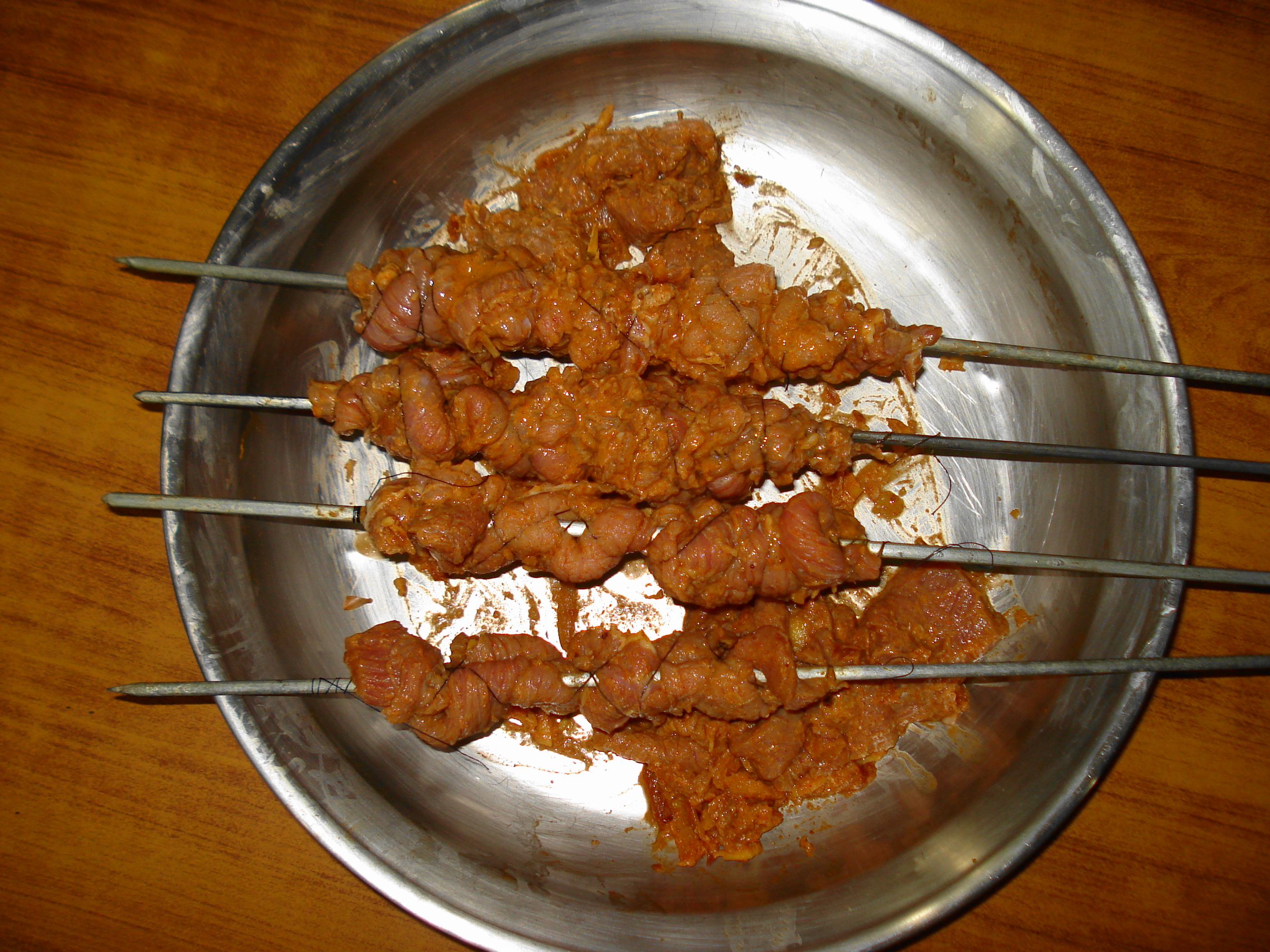 Bihari Kabab